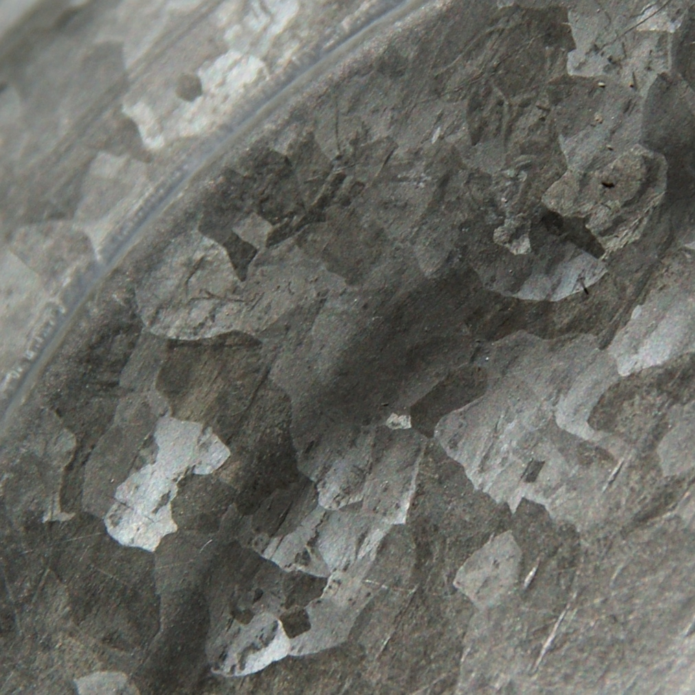 Zinc is a bluish silvery, brittle and hard metal, with which one often comes across. It is rather ignoble, but in air quickly forms an enduring protective layer. Therefore it is used a lot as corrosion prevention. Many objects made of iron, which shall be weatherproof, are zinc-plated. This is also, because zinc is a quite cheap material. Brass, one of the most common alloys, is made of copper and zinc. Furthermore, zinc is an essential trace element, which above all is needed for the metabolism and which occurs in many foods.